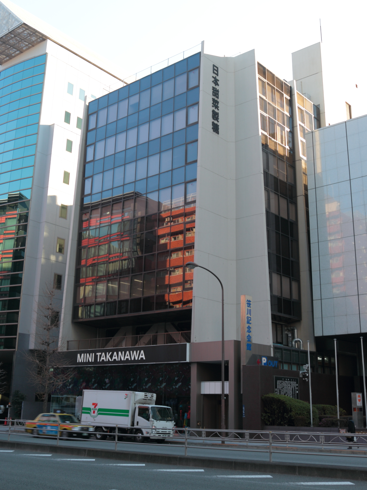 Headquarter of Nippon Beet Sugar Mfg. Minato, Tokyo.